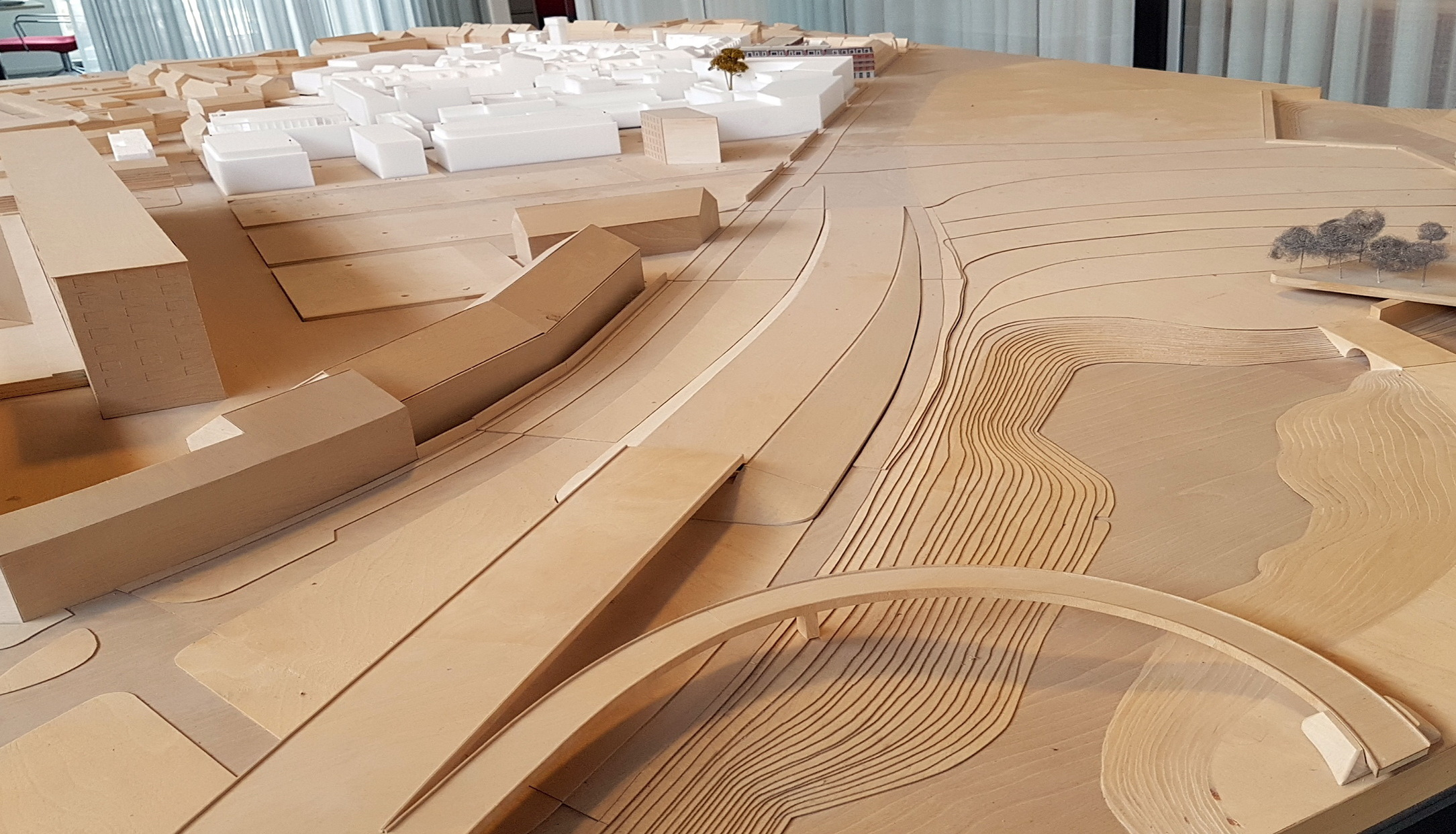 Detail of an urban planning model of Frontenpark in Maastricht, Netherlands. Photographed at Info Centre Belvédère in the former Royal Sphinx showroom.